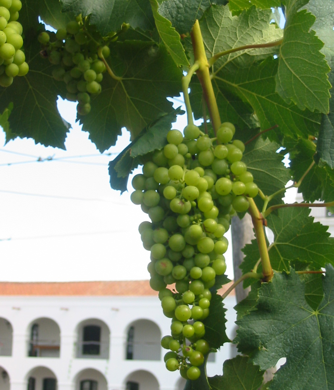 Torrontés grapes, pre-veraison, in front of the el esteco bodega, cafayete, argentina